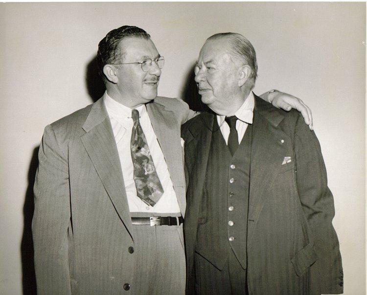 Irving Leroy Ress, Charles Coburn